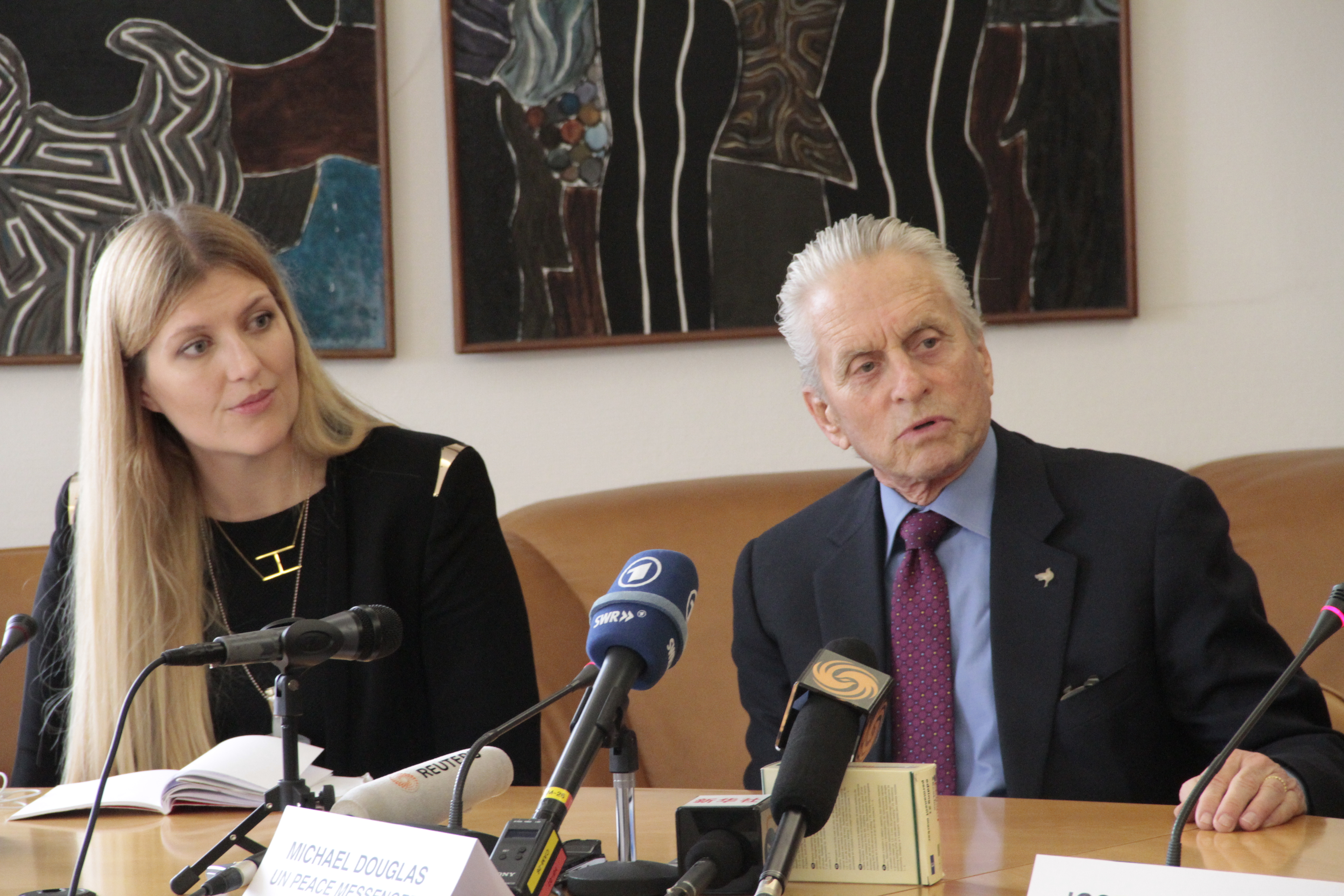 Michael Douglas speaks at a press conference during the UN open-ended working group on nuclear disarmament in Geneva in May 2016. To his left is ICAN's executive director, Beatrice Fihn. Credit: Tim Wright